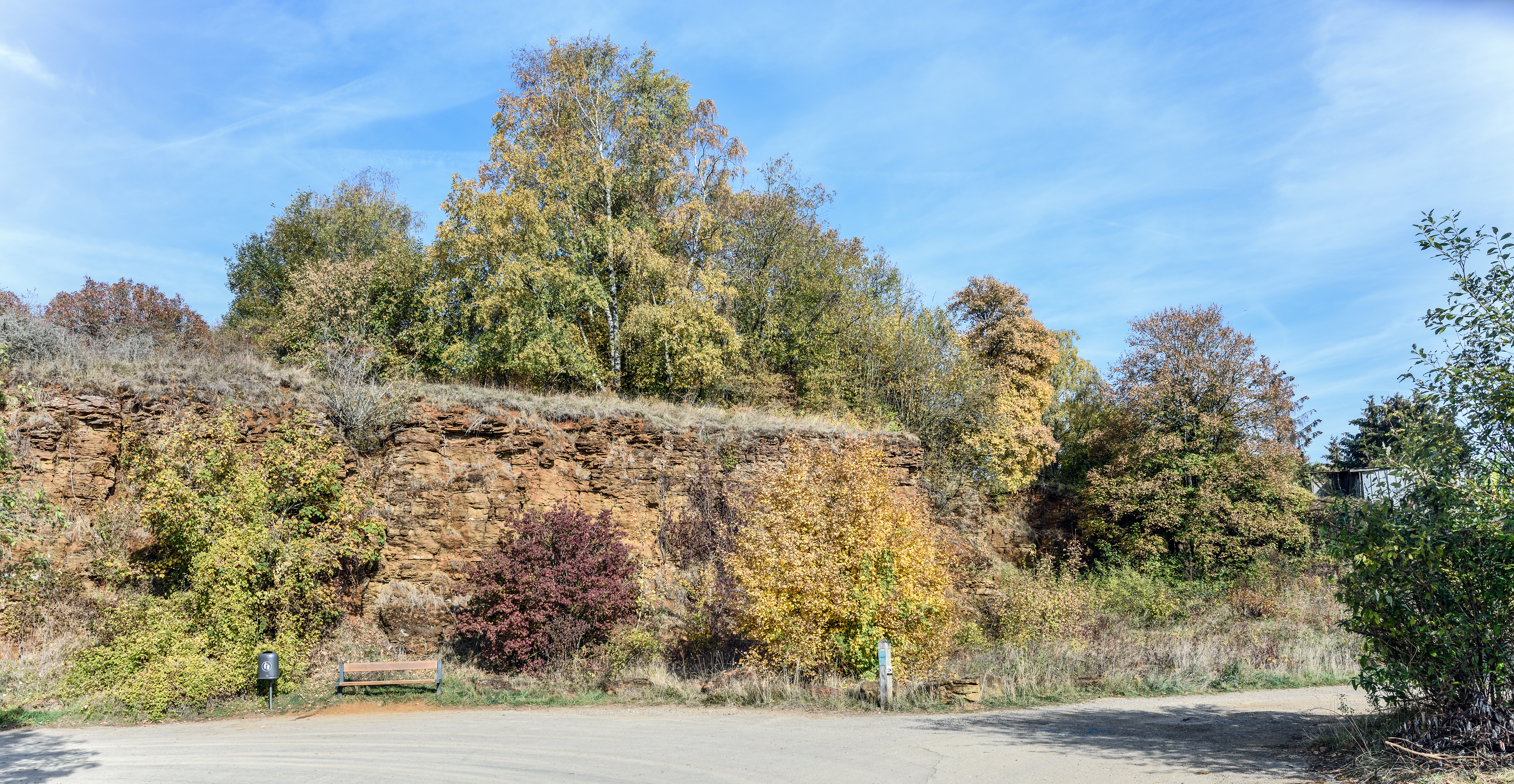 Luxembourg, Dudelange city: entrance to the nature reserve Haard.